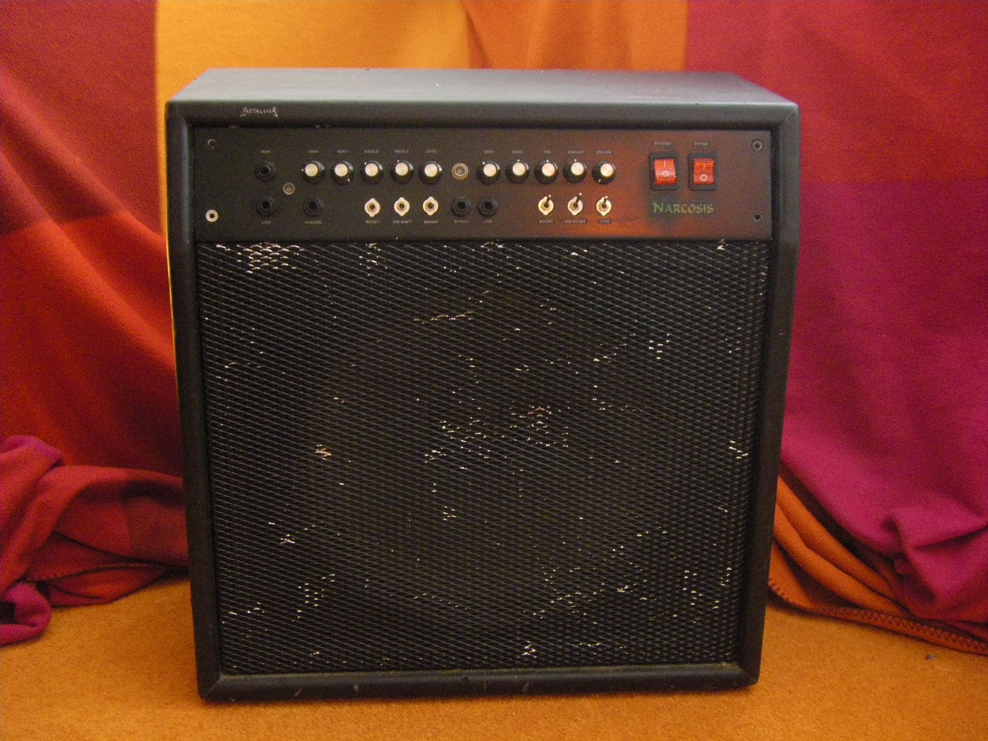 Guitar amplifier (Guitar amp), self-made